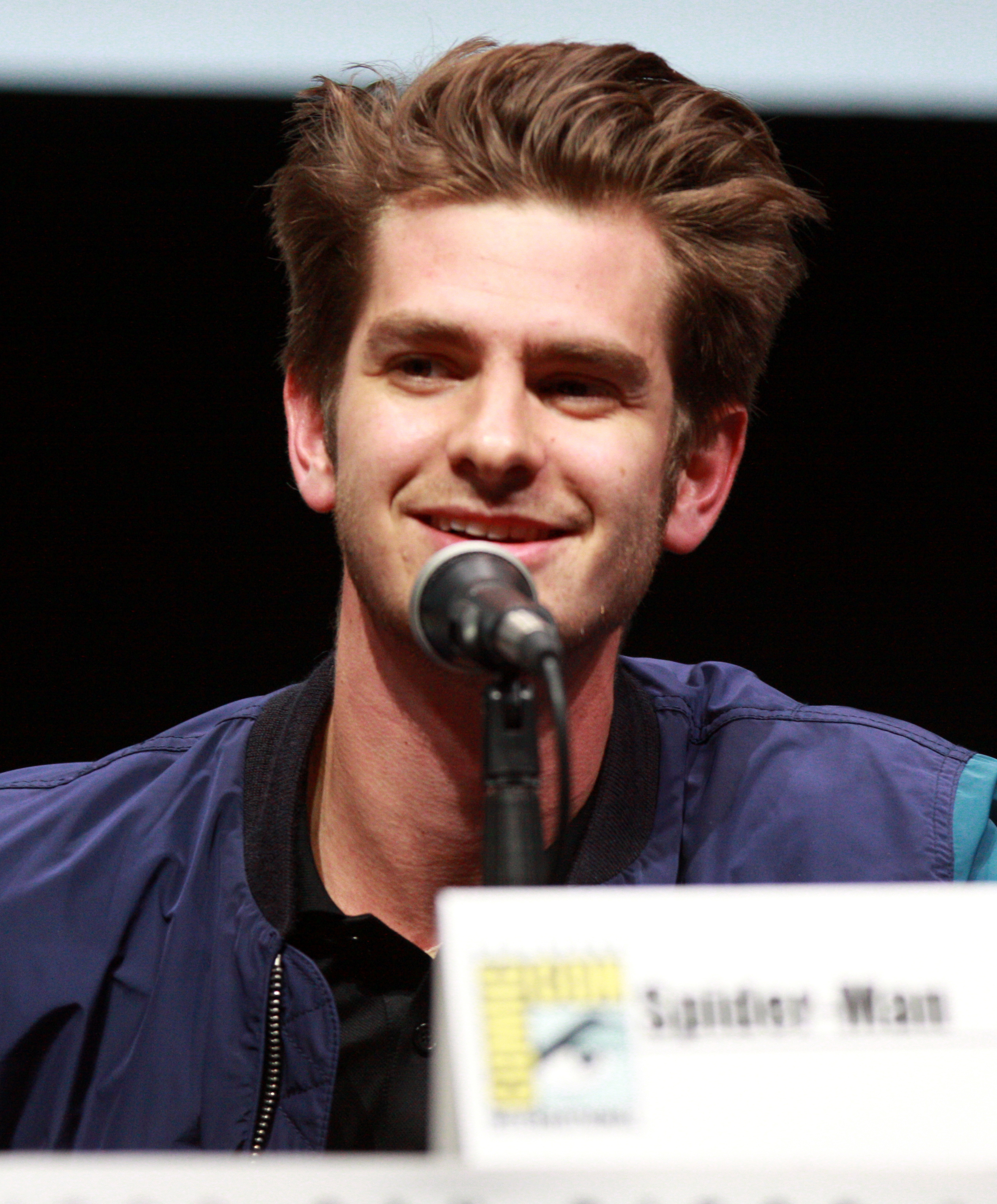 Andrew Garfield at the 2013 San Diego Comic Con International in San Diego, California.